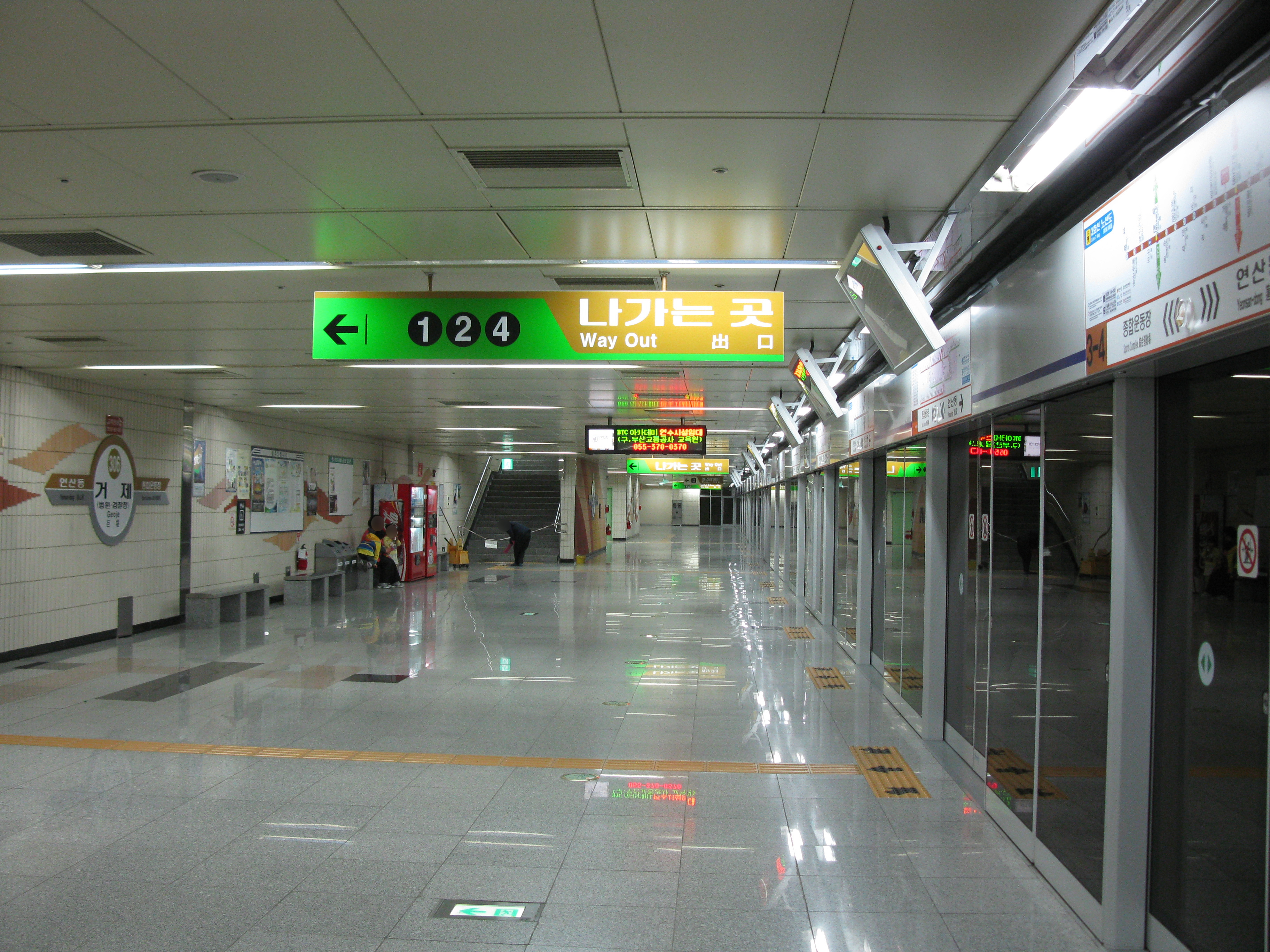 A platform of Geoje Station, Busan Subway Line 3